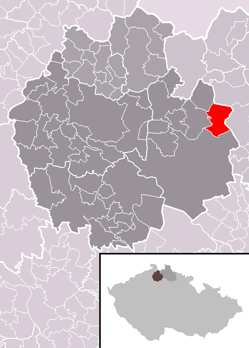 Location of Hamr na Jezeře municipality within Česká Lípa District and administrative area of Česká Lípa as a Municipality with Extended Competence.